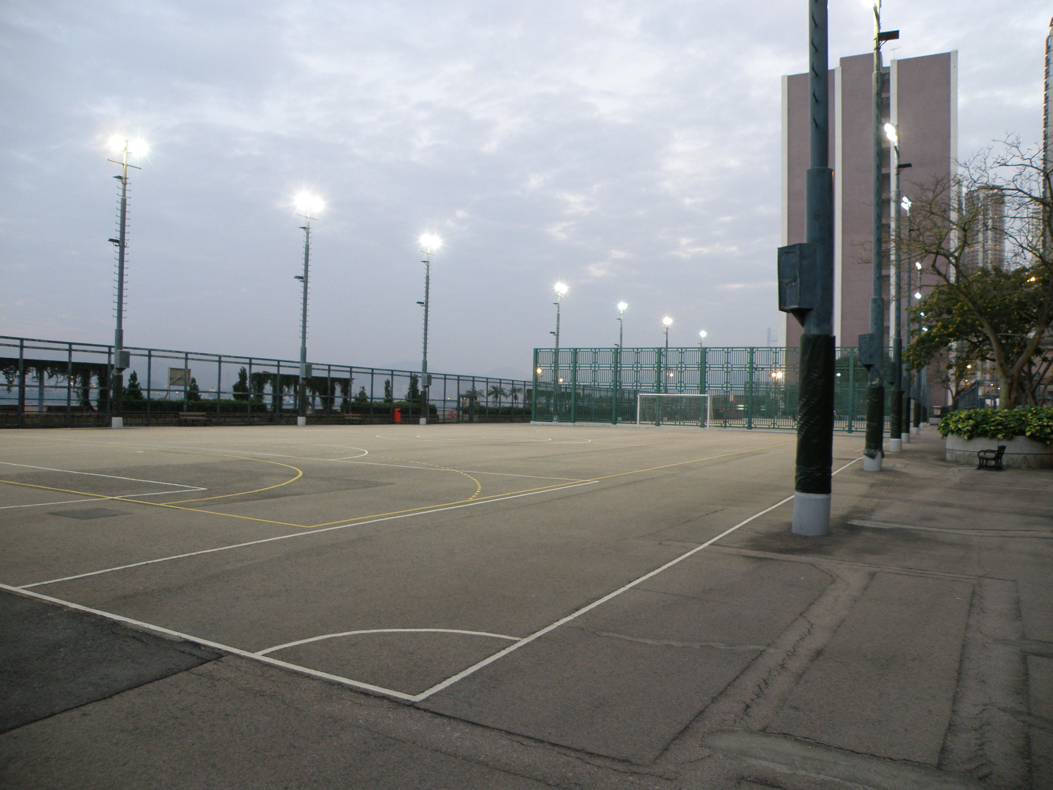 Kennedy Town Temporary Recreation Ground in Kennedy Town, Hong Kong.